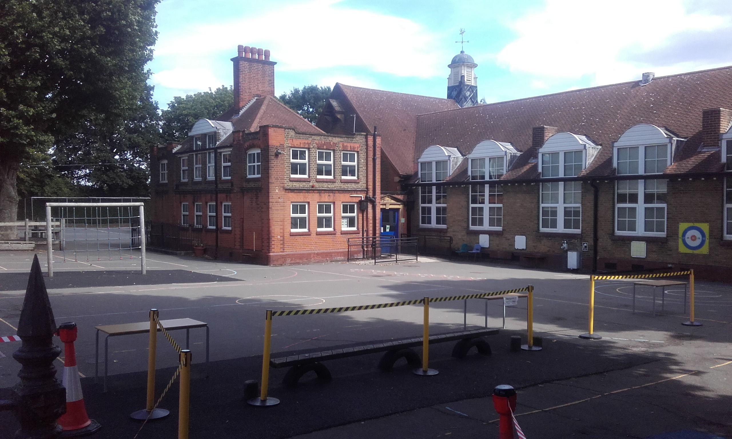 Barclay Primary School in Canterbury Road, Leyton, London E10. This shows the first permanent building on the site which was built in 1910.